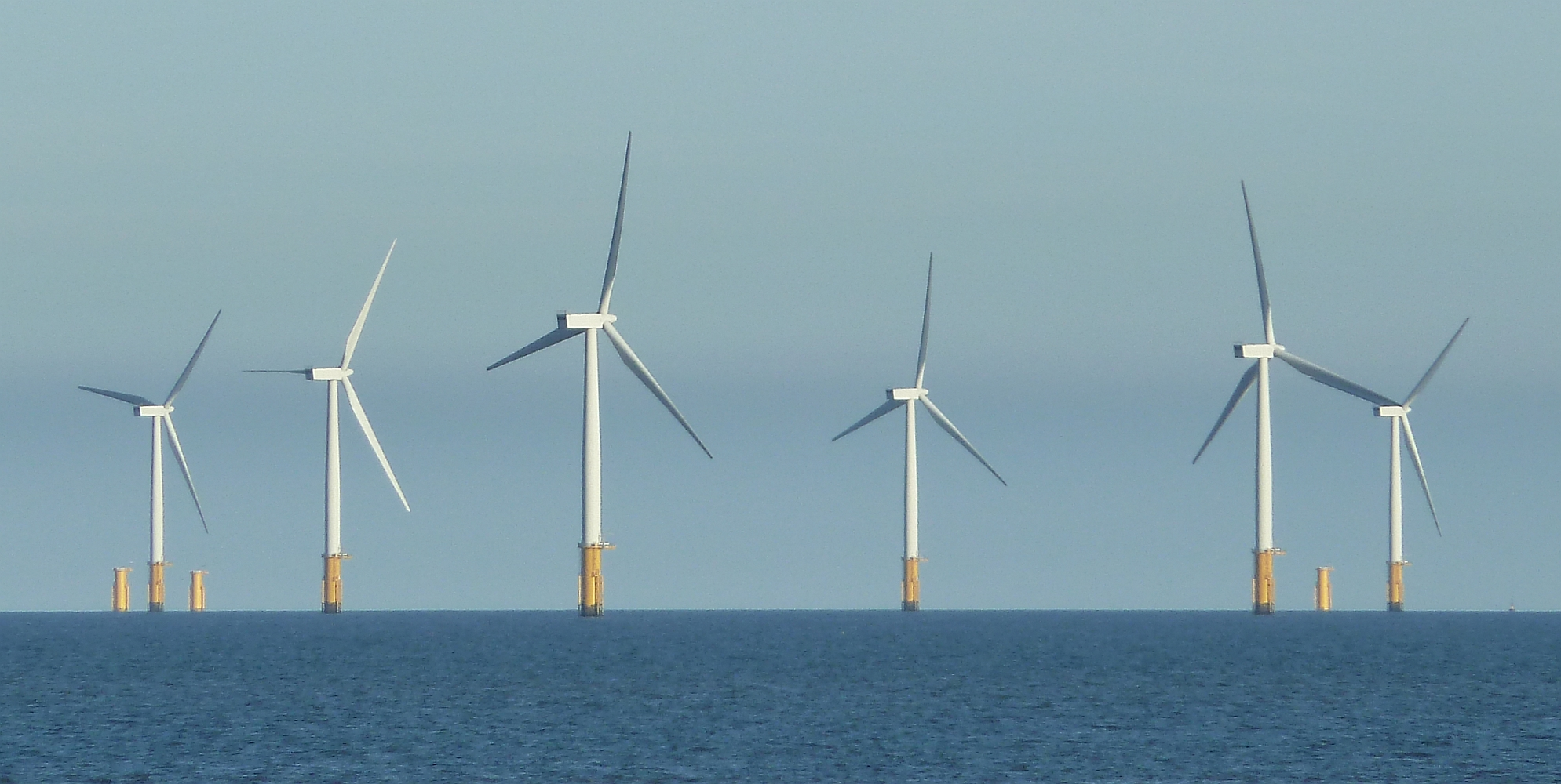 Offshore windfarm, Skegness. Uploaders note: This picture probably shows the "Lynn" part of the Lynn and Inner Dowsing Wind Farm. The three stumps which can be seen behind the six turbines are probably foundations for the Lincs Wind Farm, for which construction began in 2011.